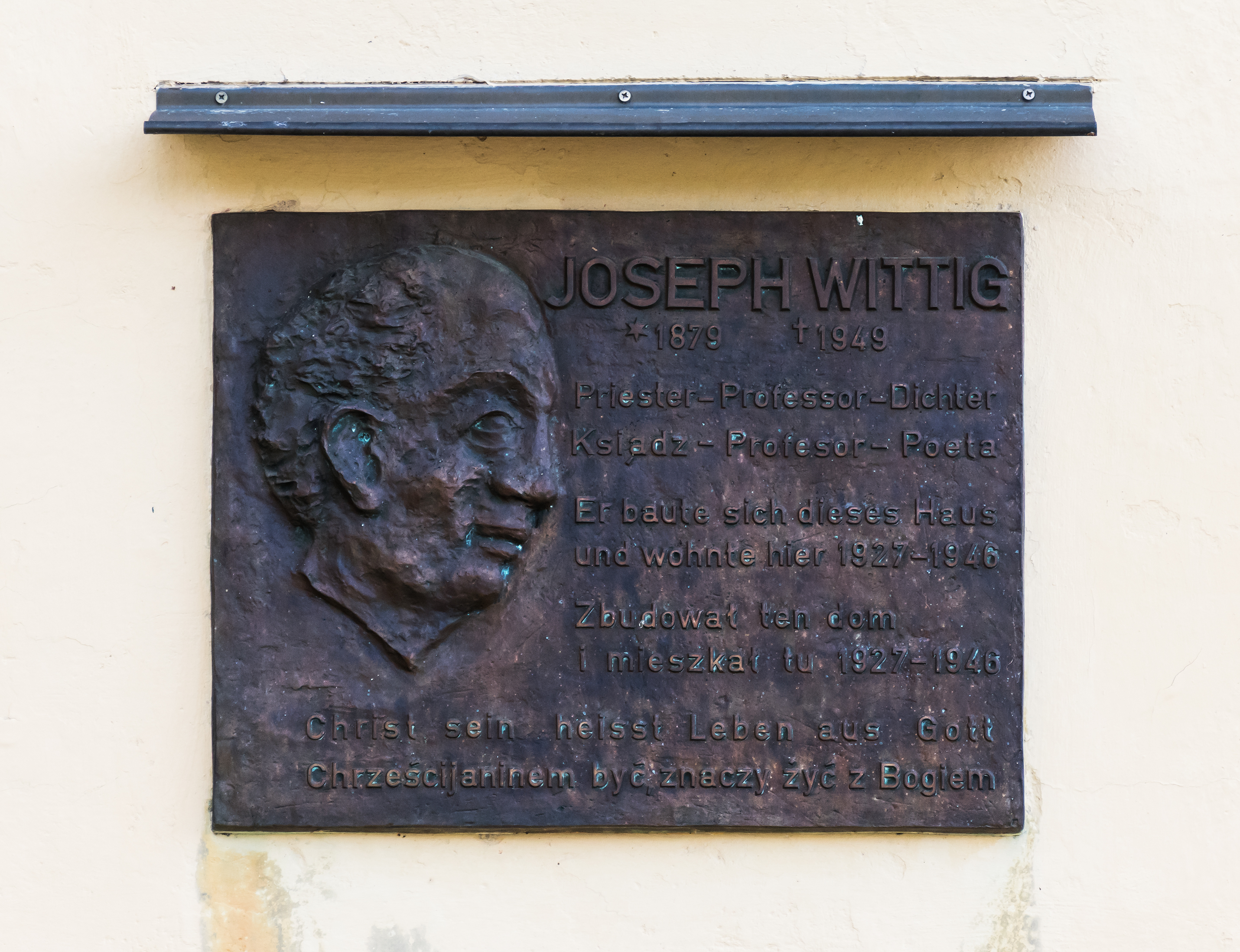 Joseph Wittig Museum in Nowa Ruda